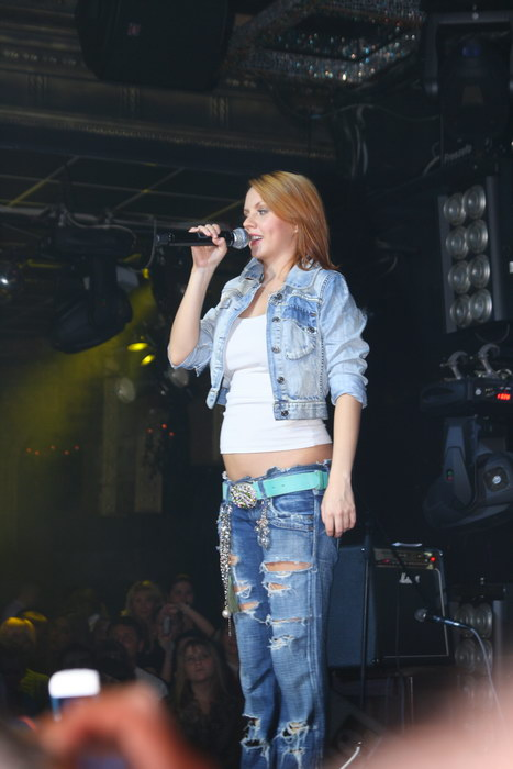 MakSim at her show in Naberezhnye Chelny, she is pregnant here